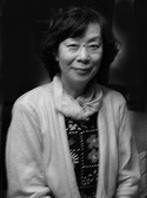 Picture of Hagio Moto taken by Actionist during a visit to her home.